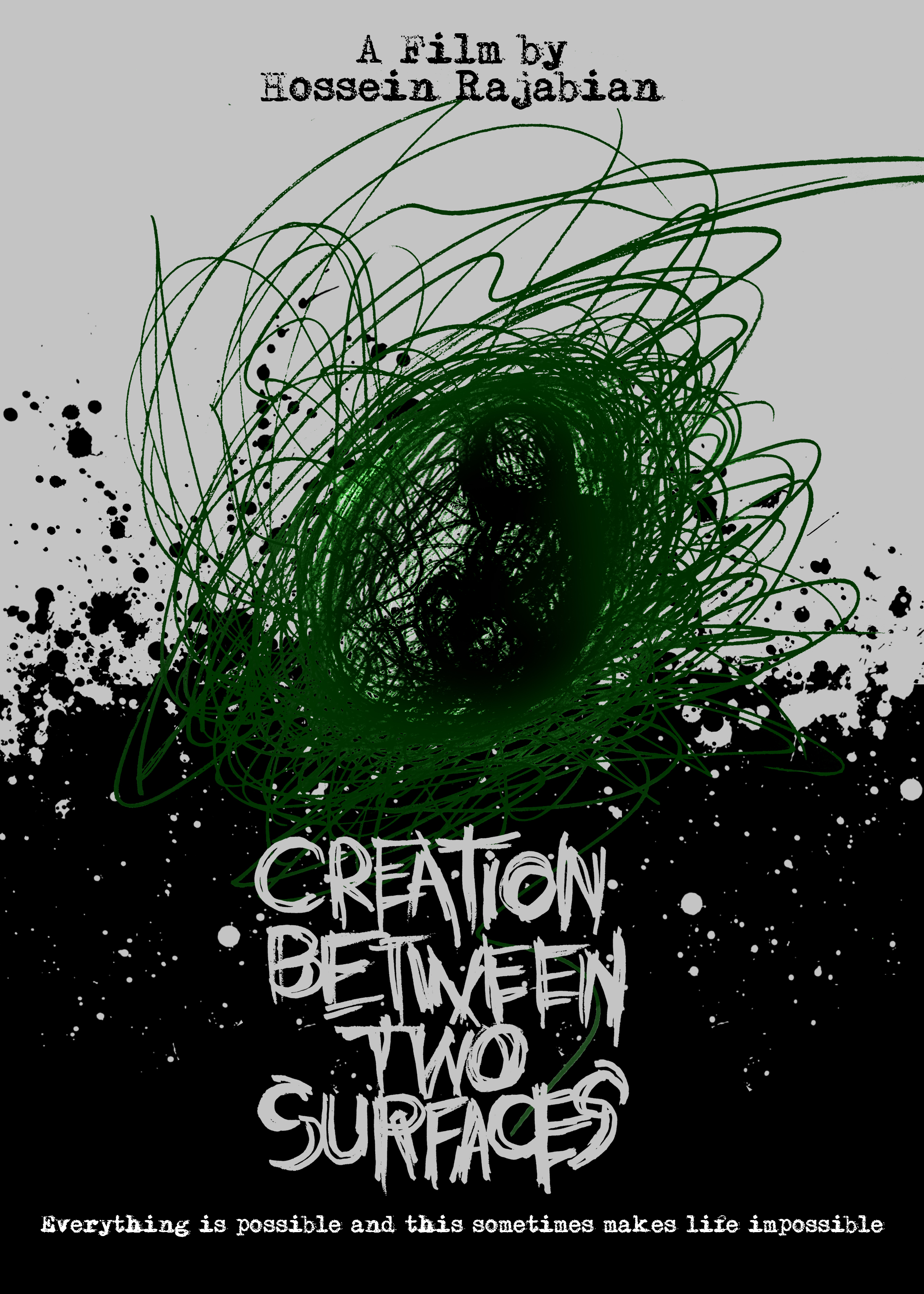 CREATION BETWEEN TWO SURFACES - A film by Hossein Rajabian .آفرینش بین دو سطح فیلمی از حسین رجبیان